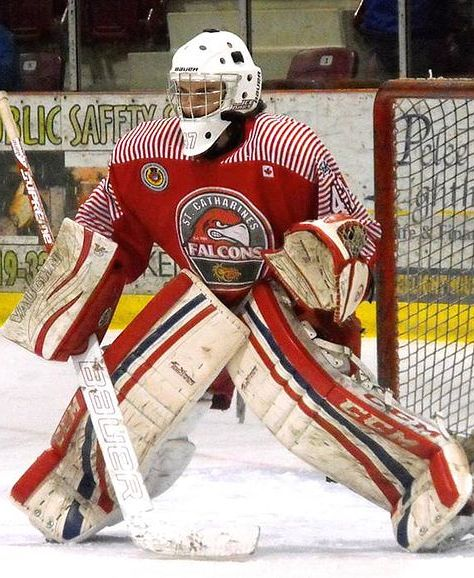 This photo was taken by Devan Mighton during the 2014 GOJHL playoffs.